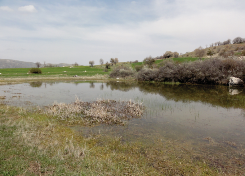 From the original articleː "The type locality of Triturus anatolicus sp. nov. at Gölköy, Turkey."